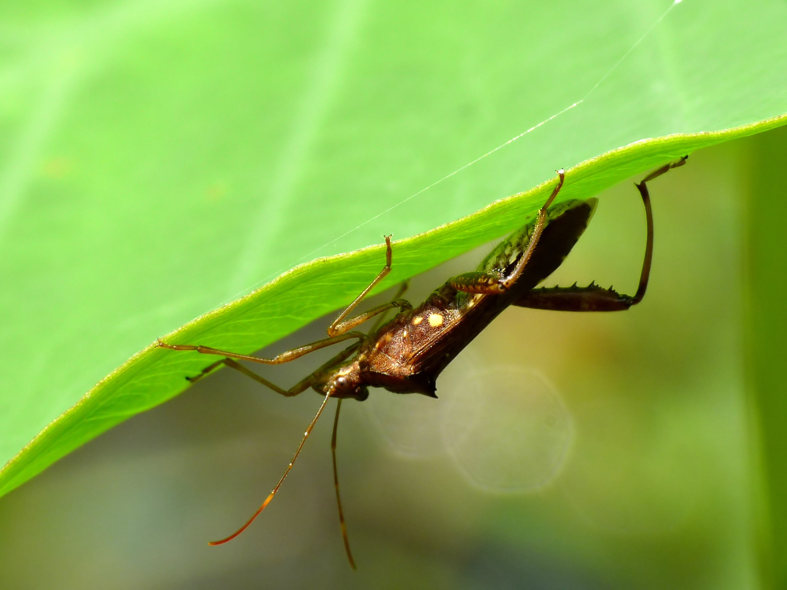 Alydidae, commonly known as broad-headed bugs, is a family of true bugs very similar to the closely related Coreidae (leaf-footed bugs and relatives). Alydidae are generally of dusky or blackish coloration. The upperside of the abdomen is usually bright orange-red. this color patch is normally not visible as it is covered by the wings; it can be exposed, perhaps to warn would-be predators of these animals' noxiousness: They frequently have scent glands that produce a stink considered to be worse than that of true stink bugs (Pentatomidae). The stink is said to smell similar to a bad case of halitosis. This is probably a Riptortus species. Taken at Kadavoor, Kerala, India.